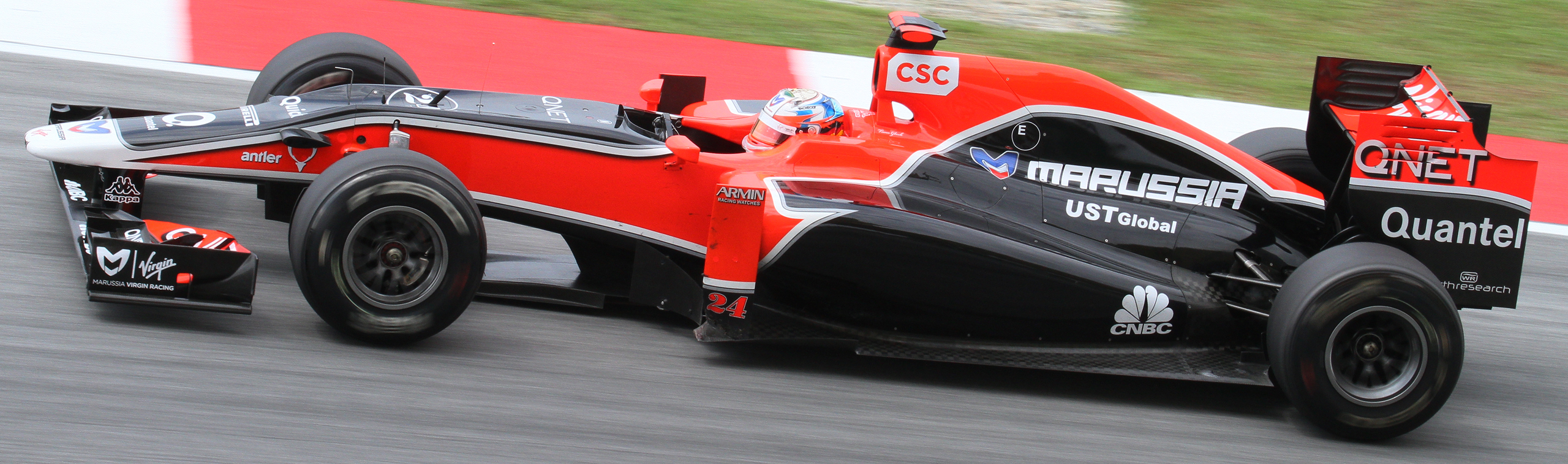 Formula One 2011 Rd.2 Malaysian GP: Timo Glock (Virgin) during the first practice session on Friday.